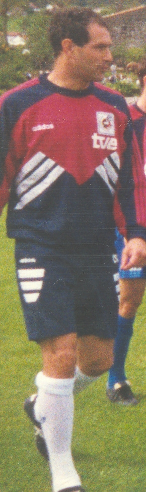 Ex-footballer Andoni Zubizarreta during a training session.